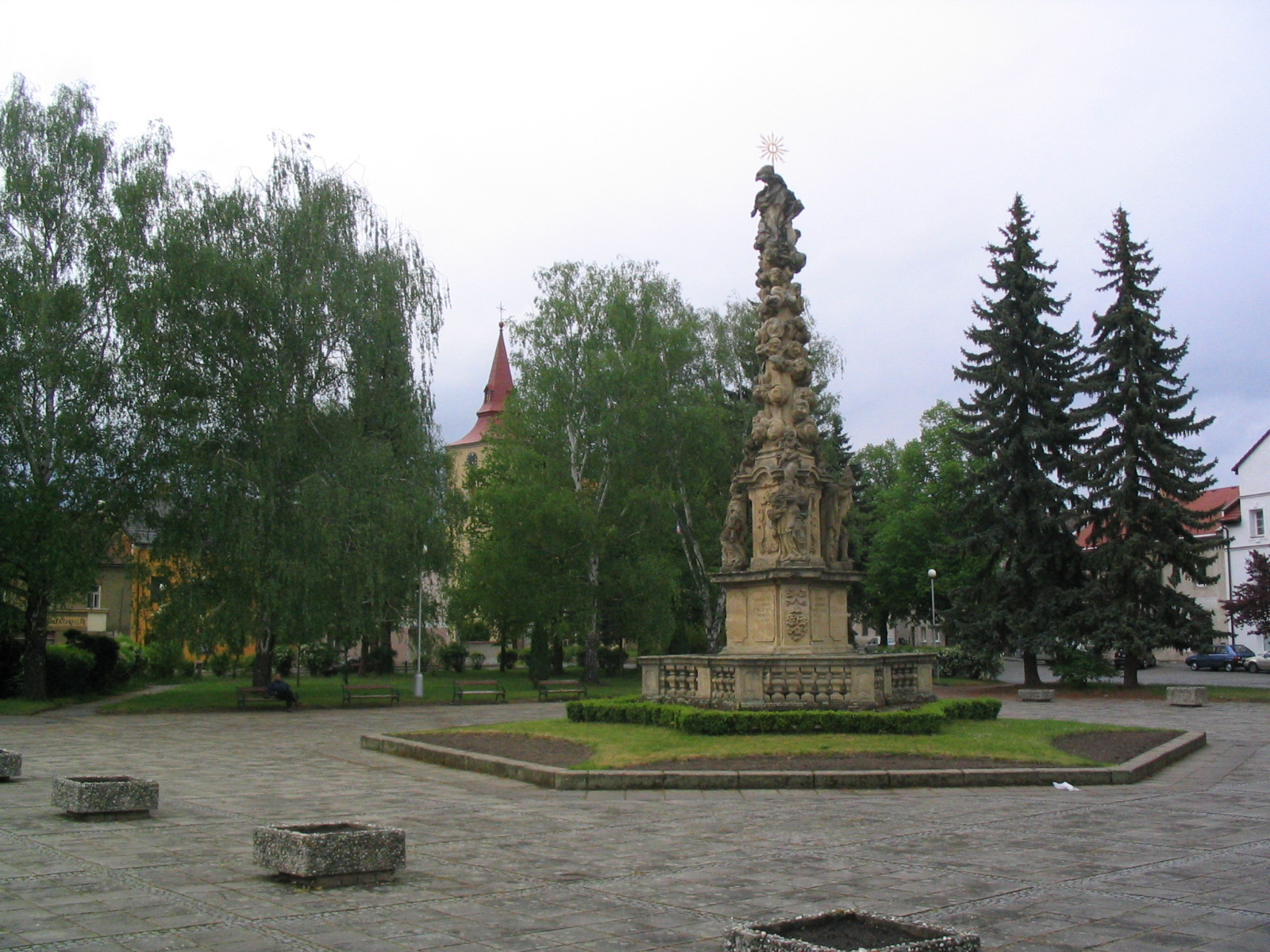 town of Bakov, czech republic